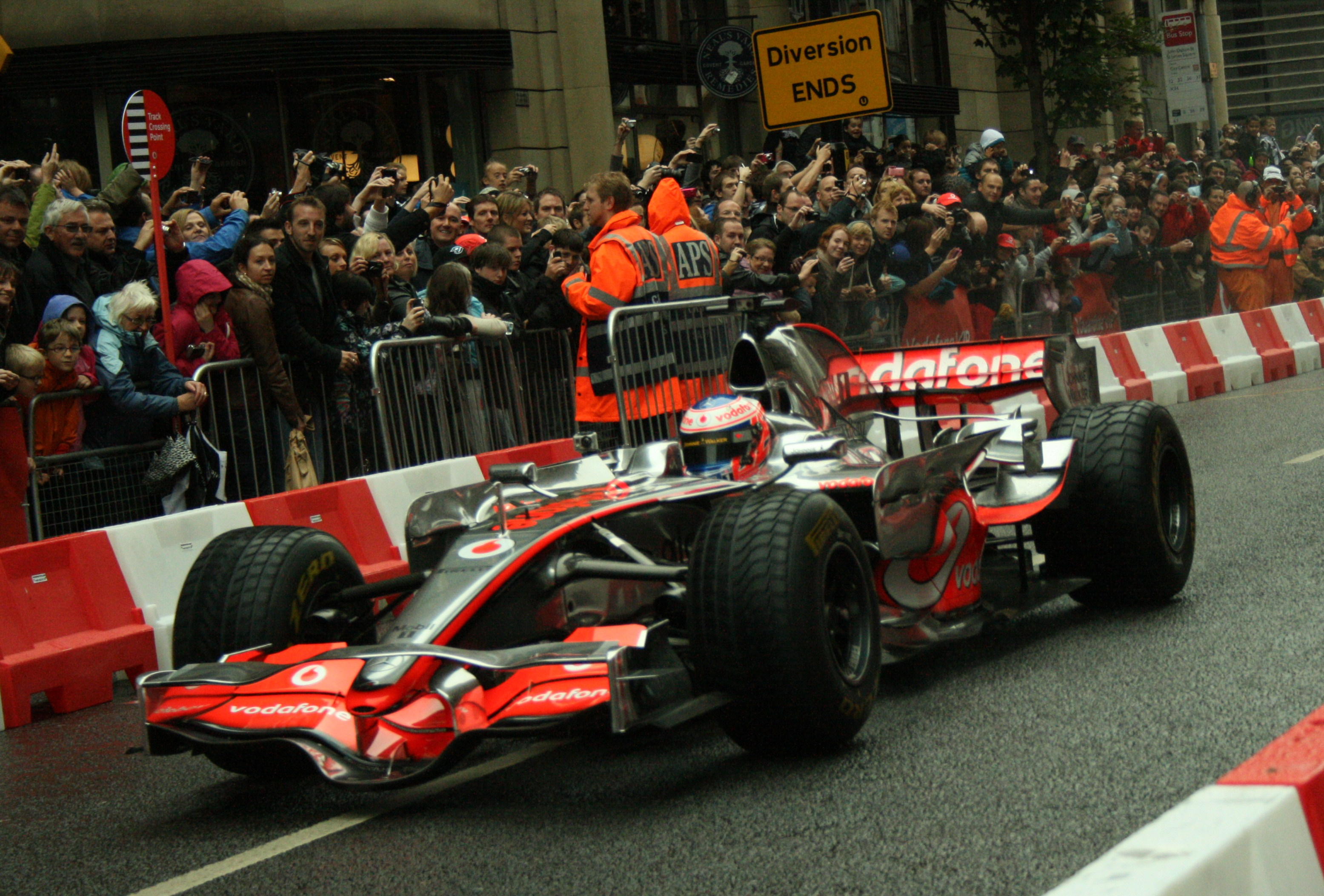 Jenson drives down John Dalton Street in Manchester City Centre, August 2011.